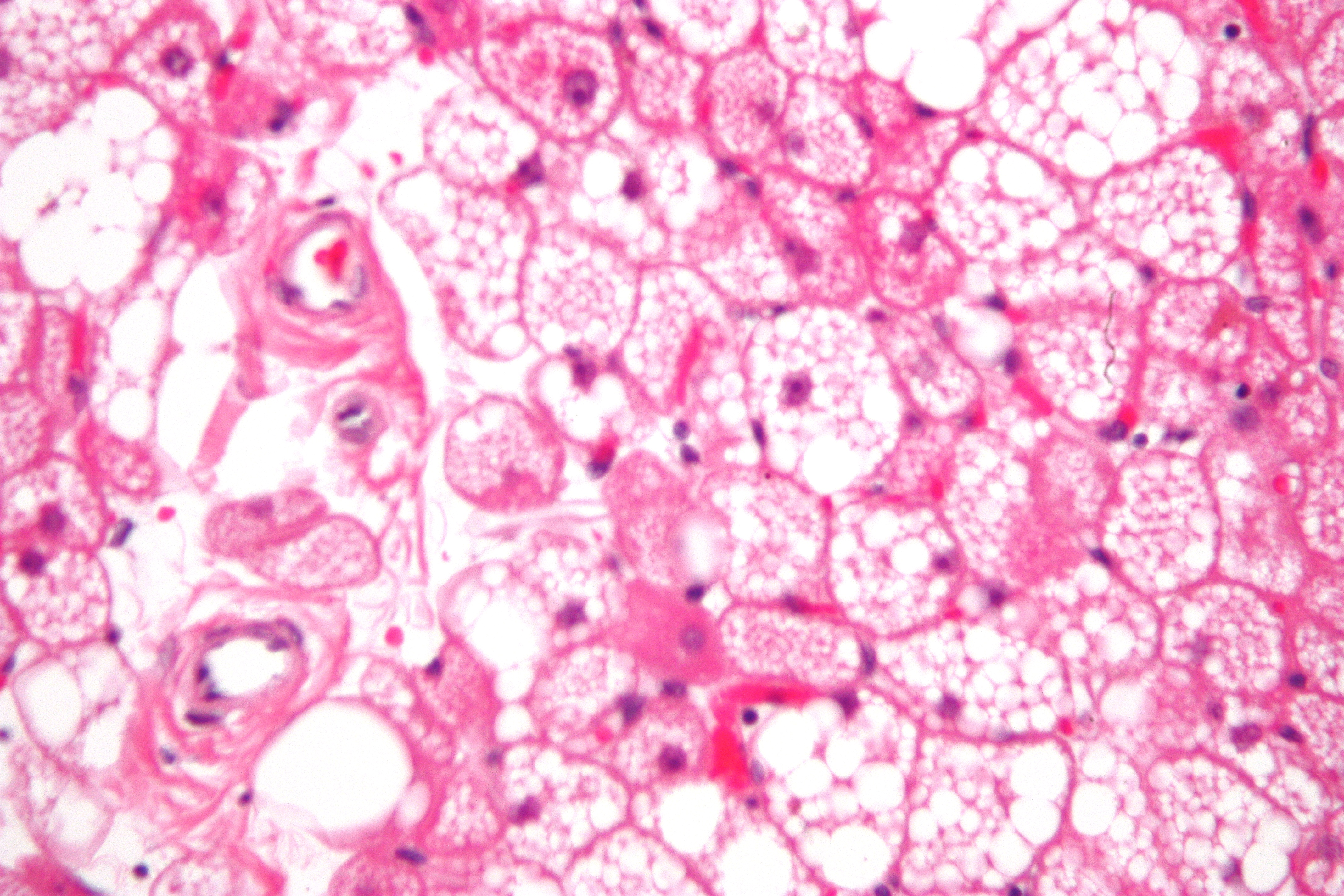 High magnification micrograph of a hibernoma, an uncommon benign soft tissue tumour, that is thought to arise from brown fat. H&E stain. Features: Large polygonal/oval cells: Nucleus - central location, small. Cytoplasm - multivacuolated, oval, eosinophilic, granular.